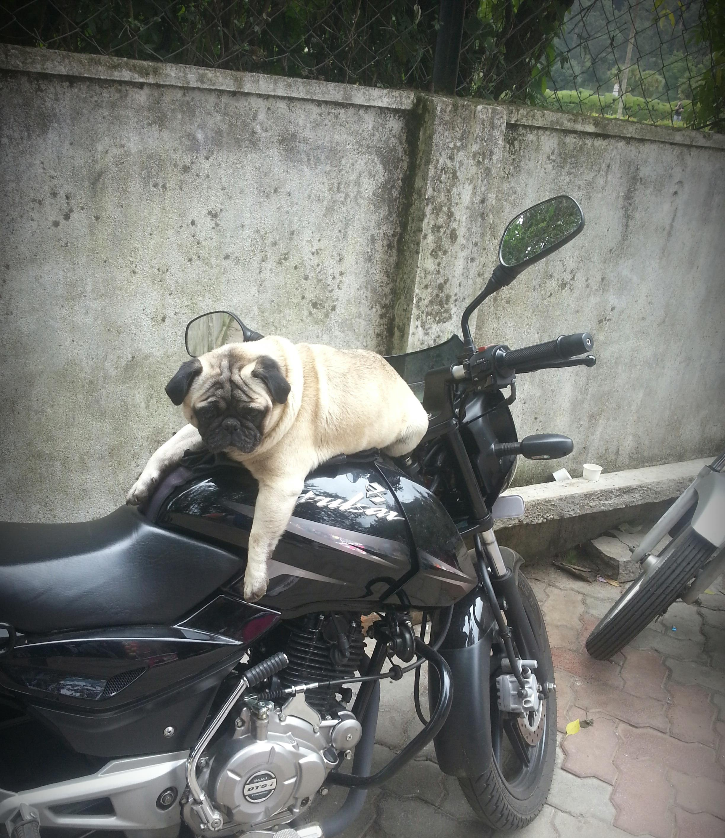 Picture of a pug on a bike